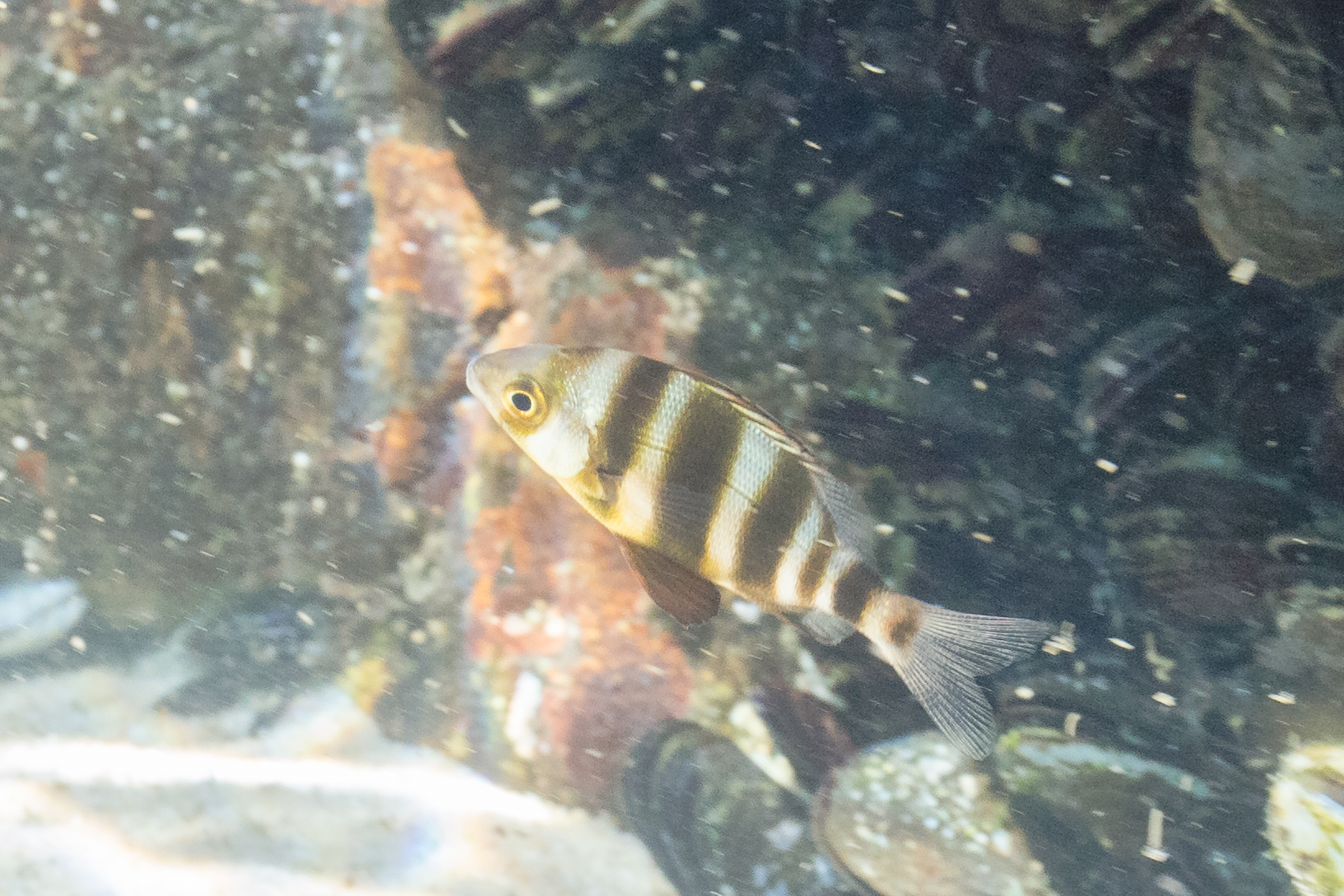 Zebra sea bream (Diplodus cervinus), Setúbal, Portugal